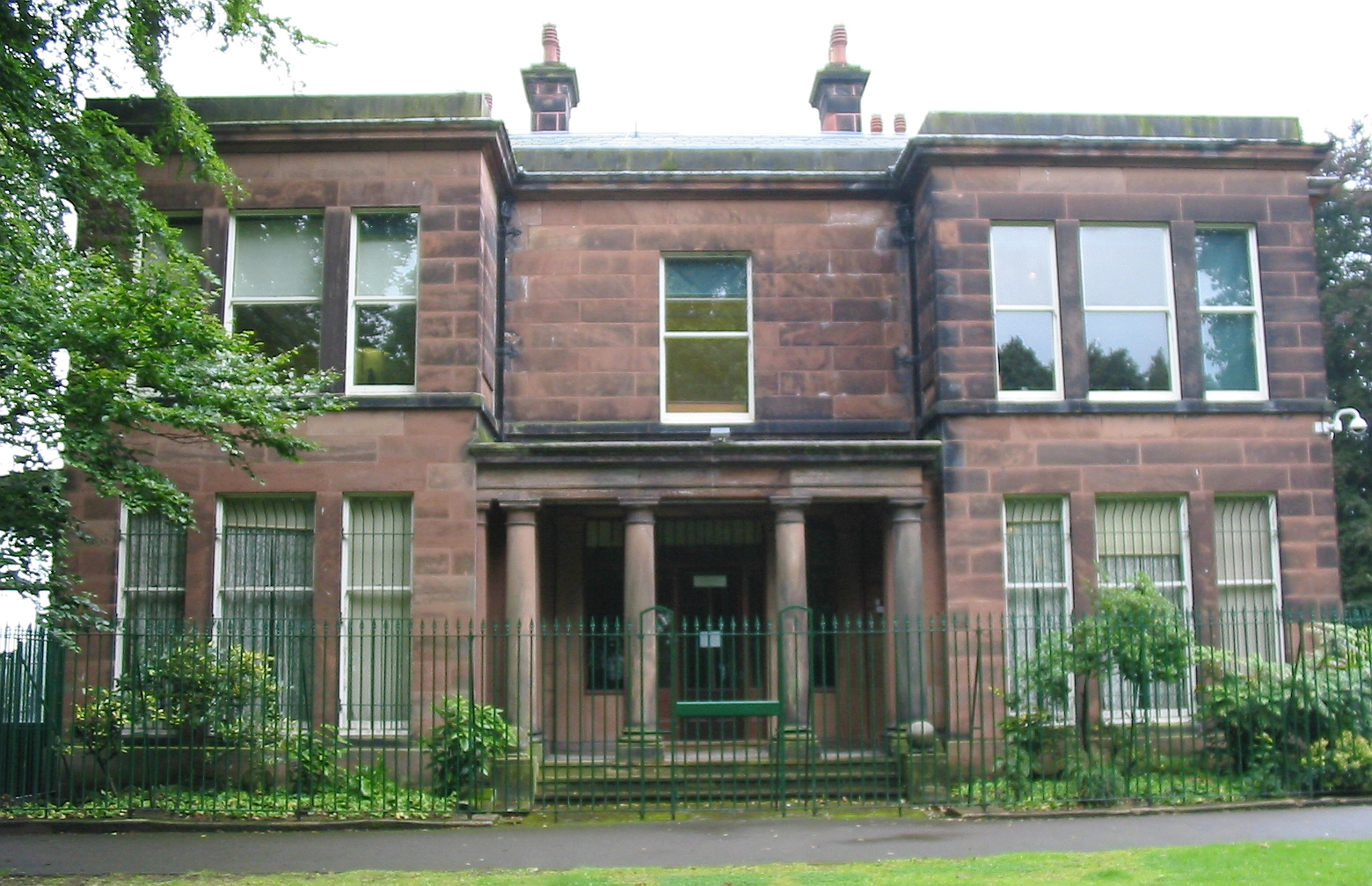 Liverpool